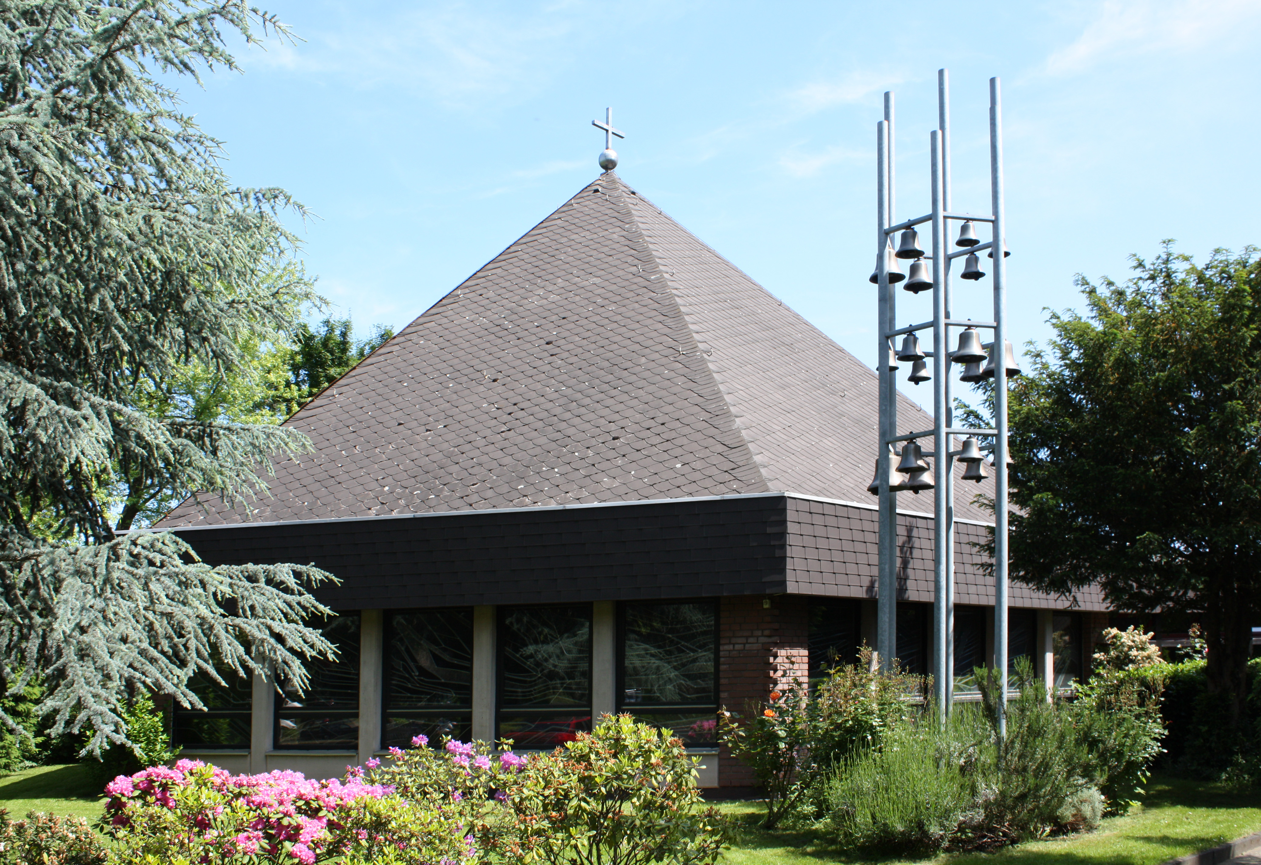 Martin Luther King Church, Hürth